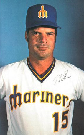 Professional baseball player Bob Stinson